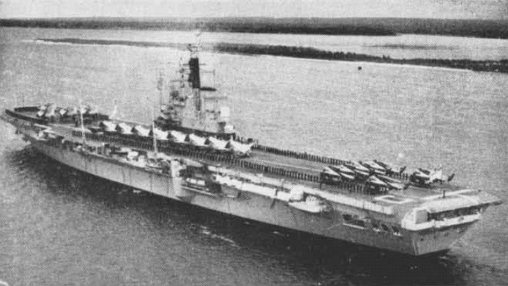 The British Royal Navy aircraft carrier HMS Centaur (R06) during the NATO exercise "Riptide III", in 1962.